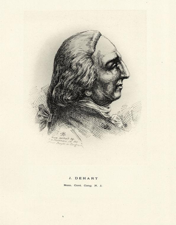 Portrait of John De Hart, member of the Continental Congress from New Jersey. Courtesy of the New York Public Library Digital Collection